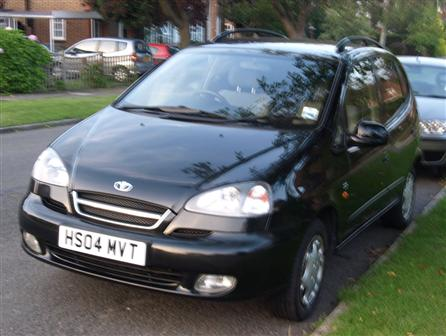 tacuma